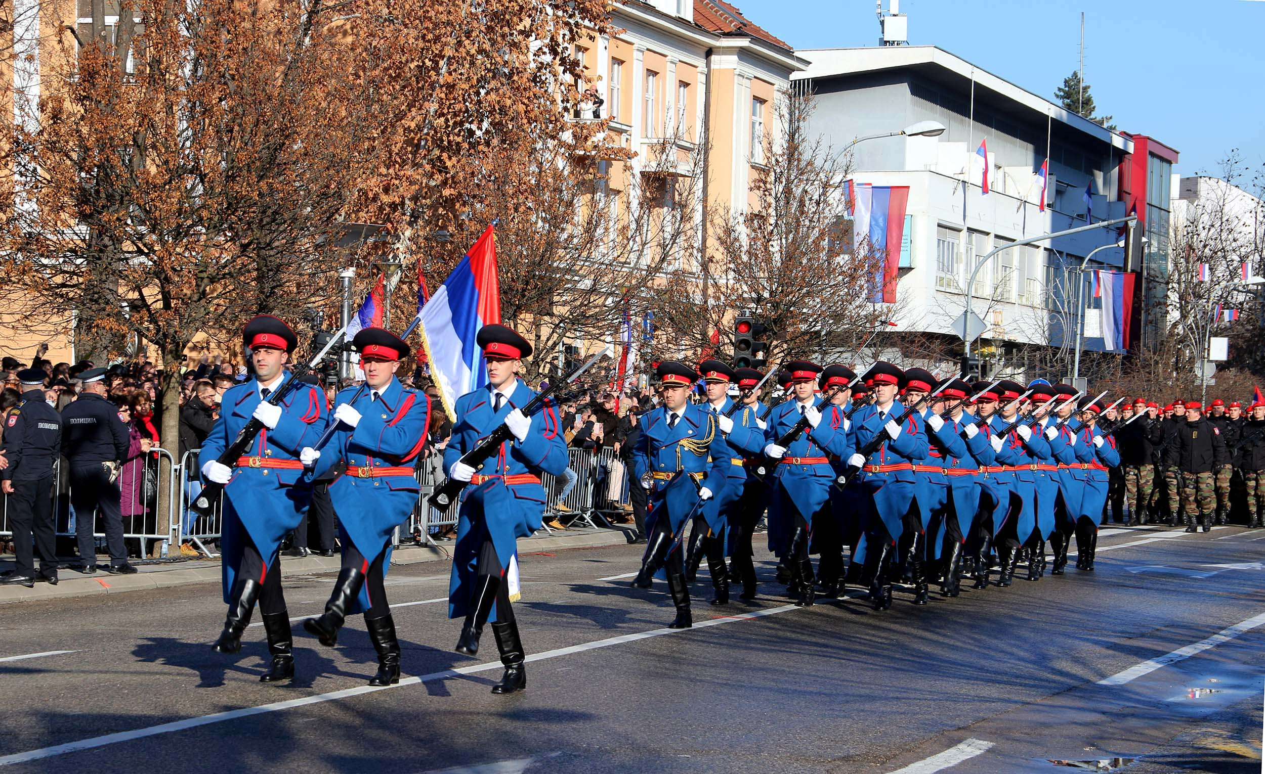 Honour Unit of the Ministry of Interior of Republika Srpska during 2019 Republic Day parade as flag company in Banja Luka.